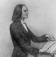 Drawing of Franz Liszt at the conductor's podium